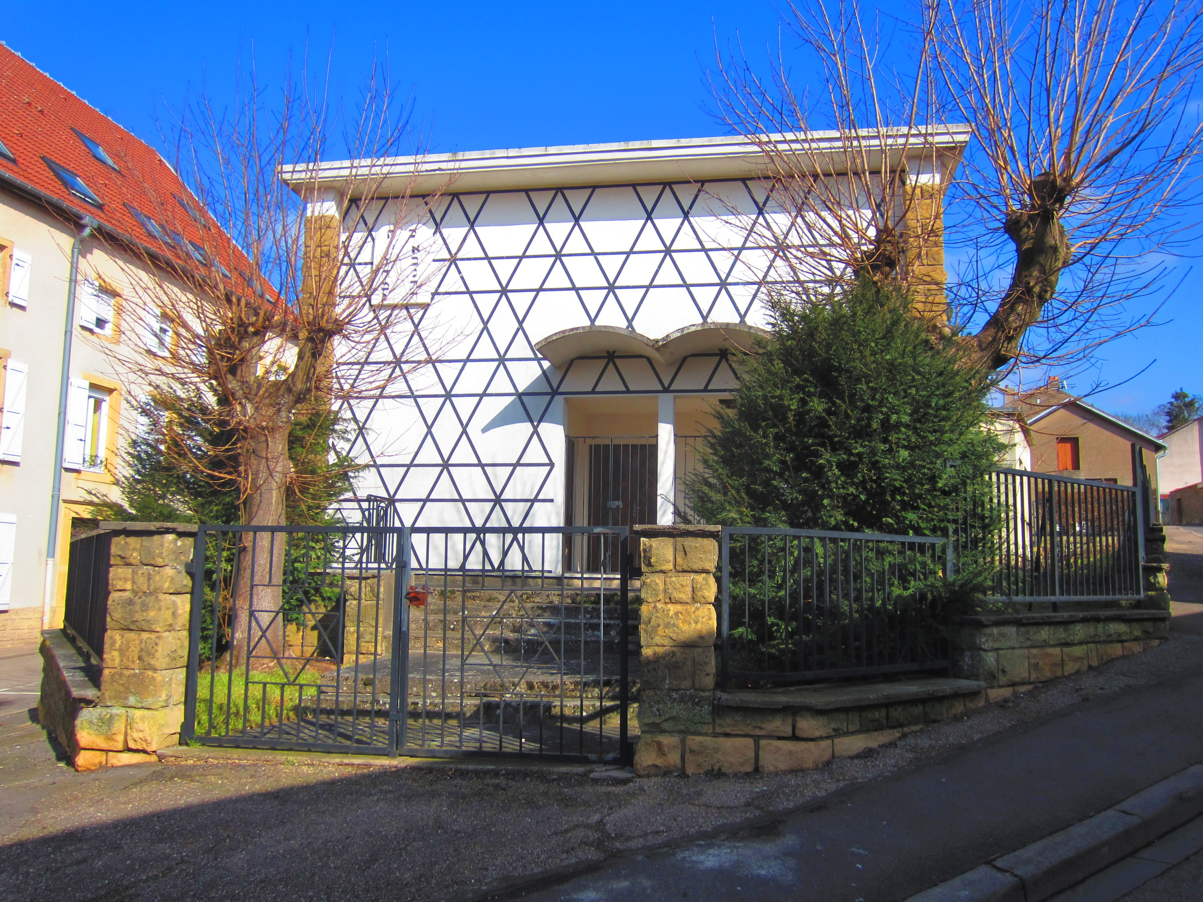 Synagogue Boulay Moselle